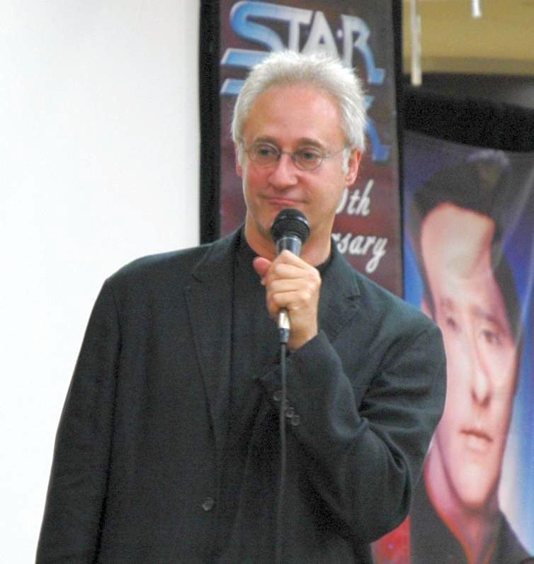 Taken on August 6th, 2005, at a Star Trek convention in Bellevue, WA.